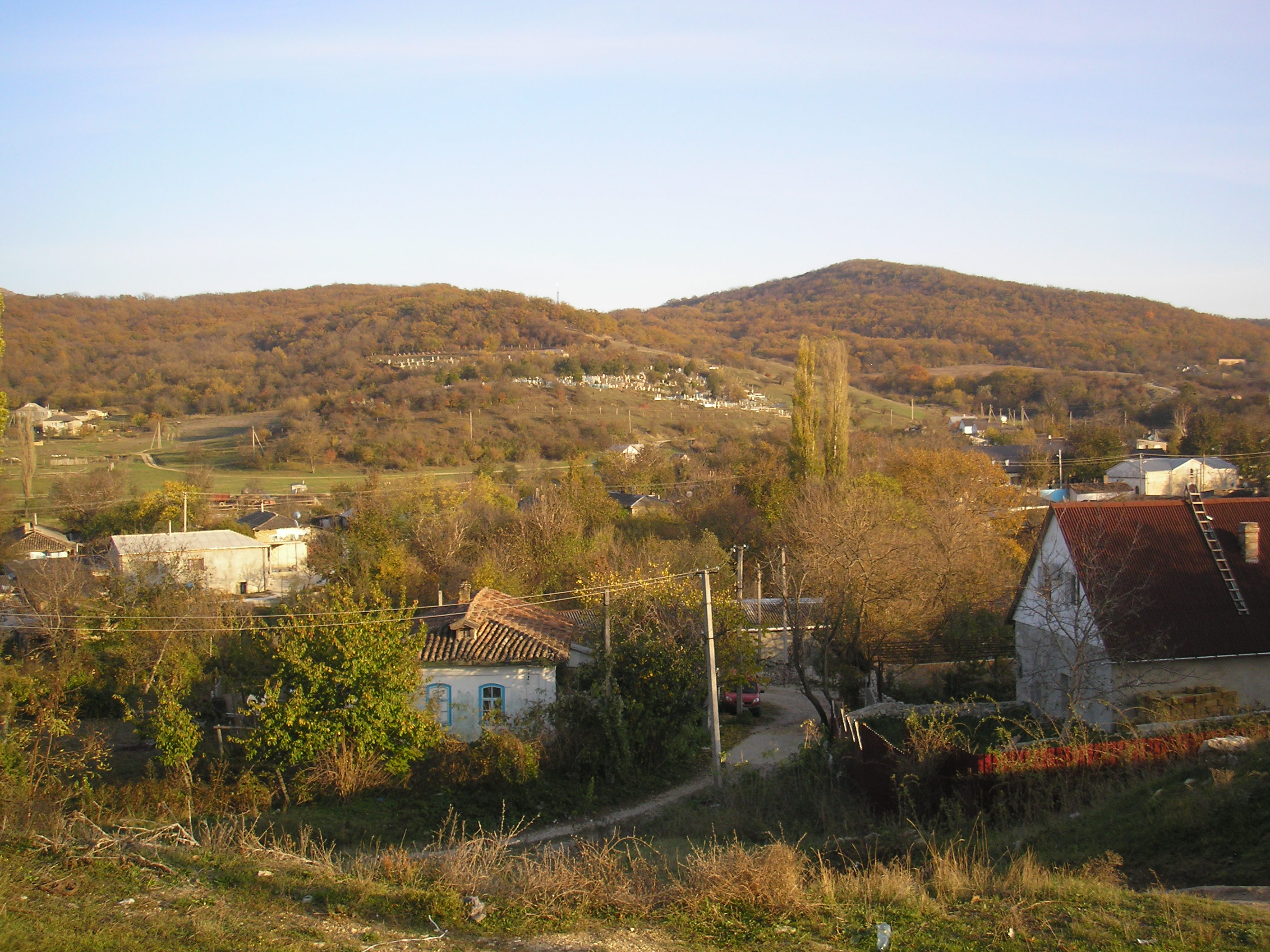 Village Grushevka, Urban District Sudak Republic of Crimea